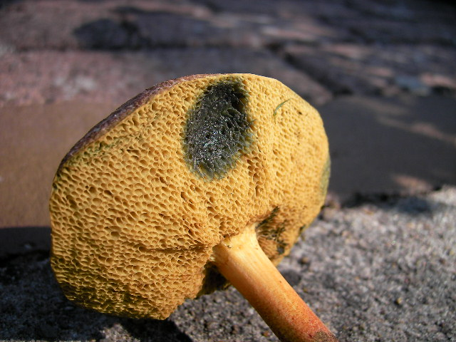 Xerocomellus chrysenteron